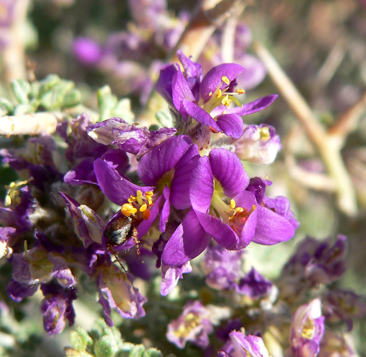 Psorothamnus polydenius at the base of the small knoll 200 m north of the junction of Calico Basin road and route 159, Red Rock Canyon, Spring Mountains, southern Nevada (elev. about 1100 m)